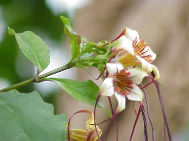 Species: Strophanthus preussii Family: Apocynaceae Image No. 1